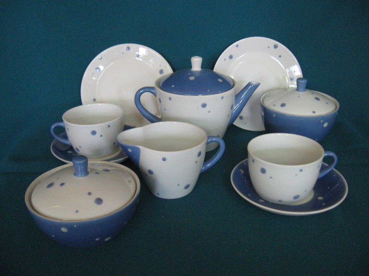 Porcelain tea set «White night». 1962. Porcelain Factory «Red farforist» (Chudovo, Novgorod region. USSR). Porcelain of the soviet sculptor Bronislav Bystrushkin (1926-1977). Lomonosov's Porcelain Factory, Leningrad, USSR.